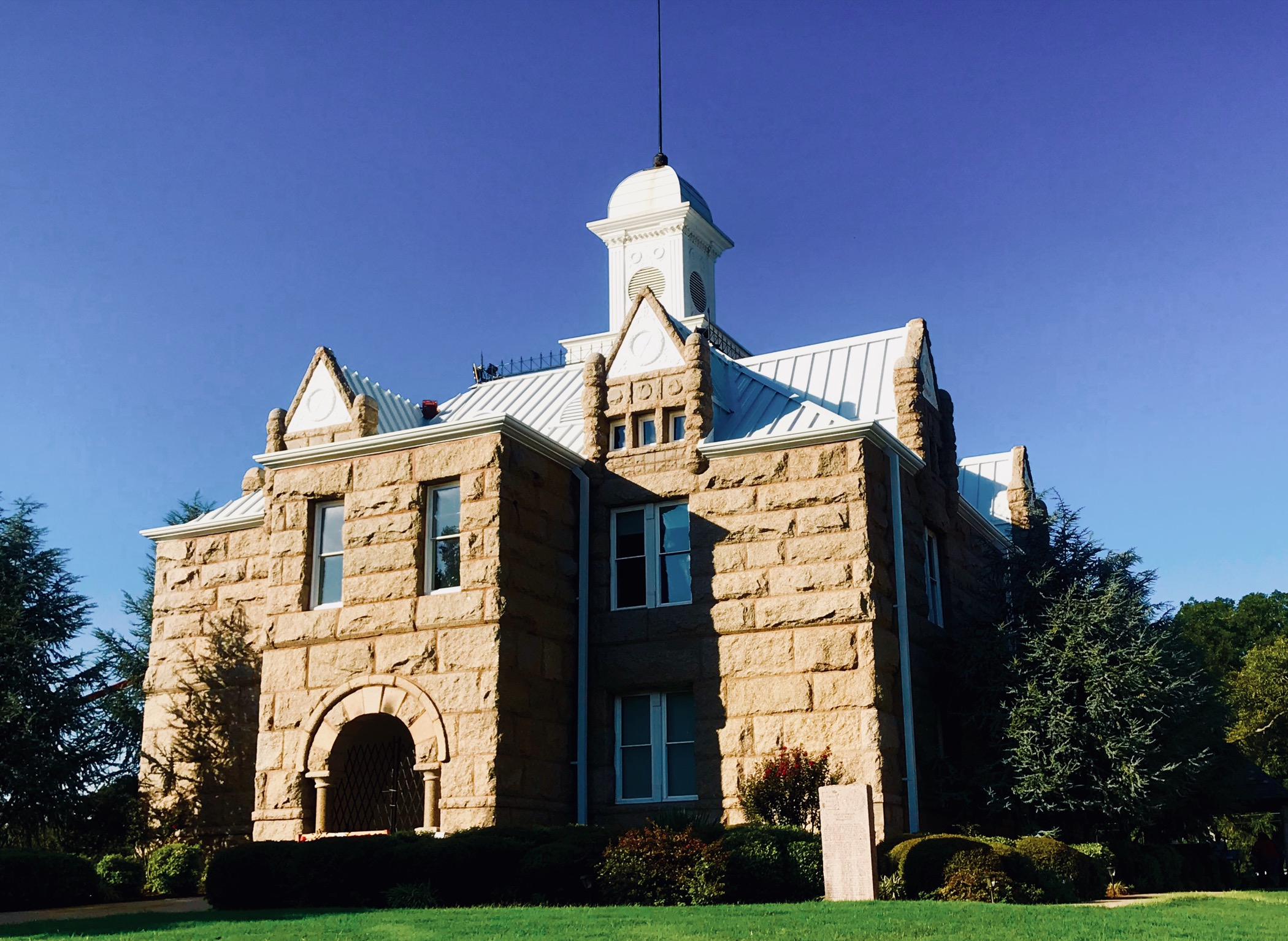 Completed in seven months for a total cost of $15,000, the Victorian, gothic-style building is over 8,000 square feet. It was dedicated on November 17, 1898, and served as the Chickasaw National Capitol until 1906.